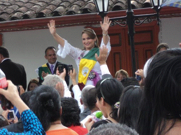 Momentos en que la gobernadora del Quindío Sandra Paola Hurtado Palacio y el alcalde de Salento Miguel Antonio Gómez Hoyos saludan a la comunidad, luego de ser posesionados.